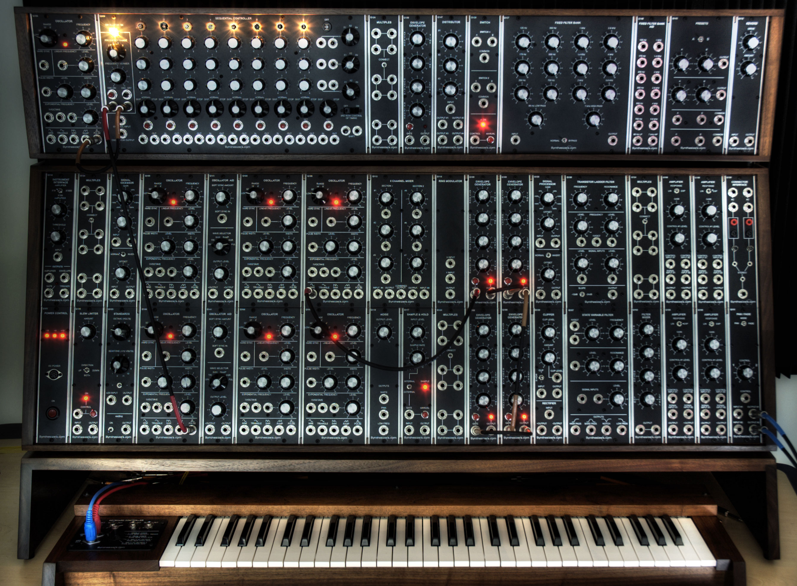 HDR front shot of the 's current Modular Synthesizer. Bracketing with long exposure times, dark room - almost all light comes from the synthesizer itself.